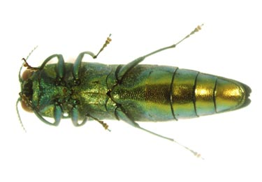 Ventral view of Emerald Ash Borer adult.